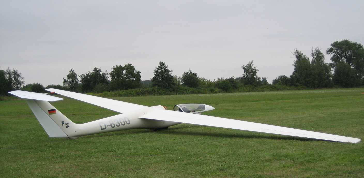 The SZD-36 Cobra was a glider designed and produced in Poland from 1968 and photographed here in Germany.